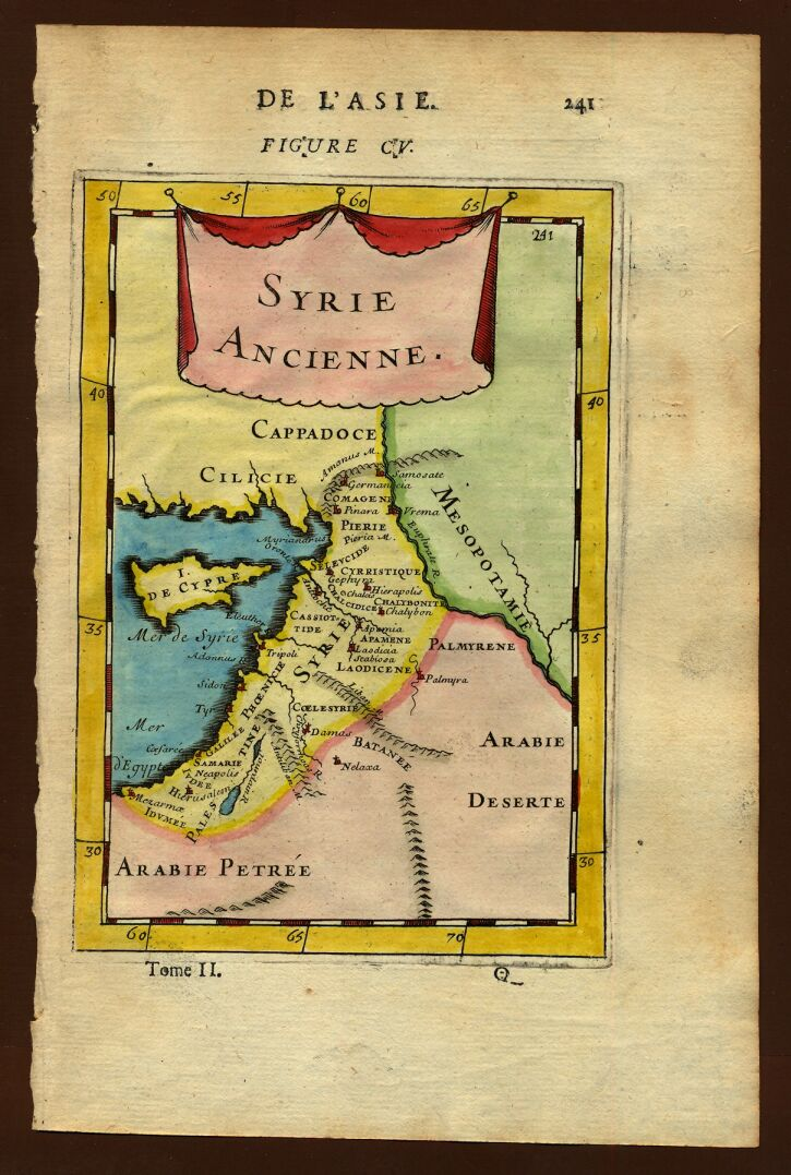 Map of ancient Syria, Description de L'Universe (Alain Manesson Mallet, 1683).jpg